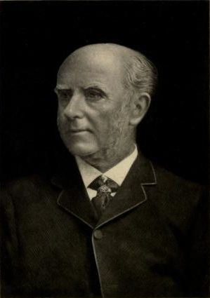 Photograph of Sir Archibald Geikie sourced from the frontispiece of his book